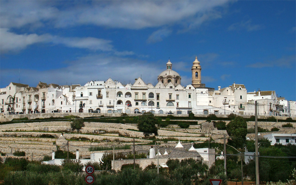 Locorotondo, Apulia, Italy. View from the Itria Valley.